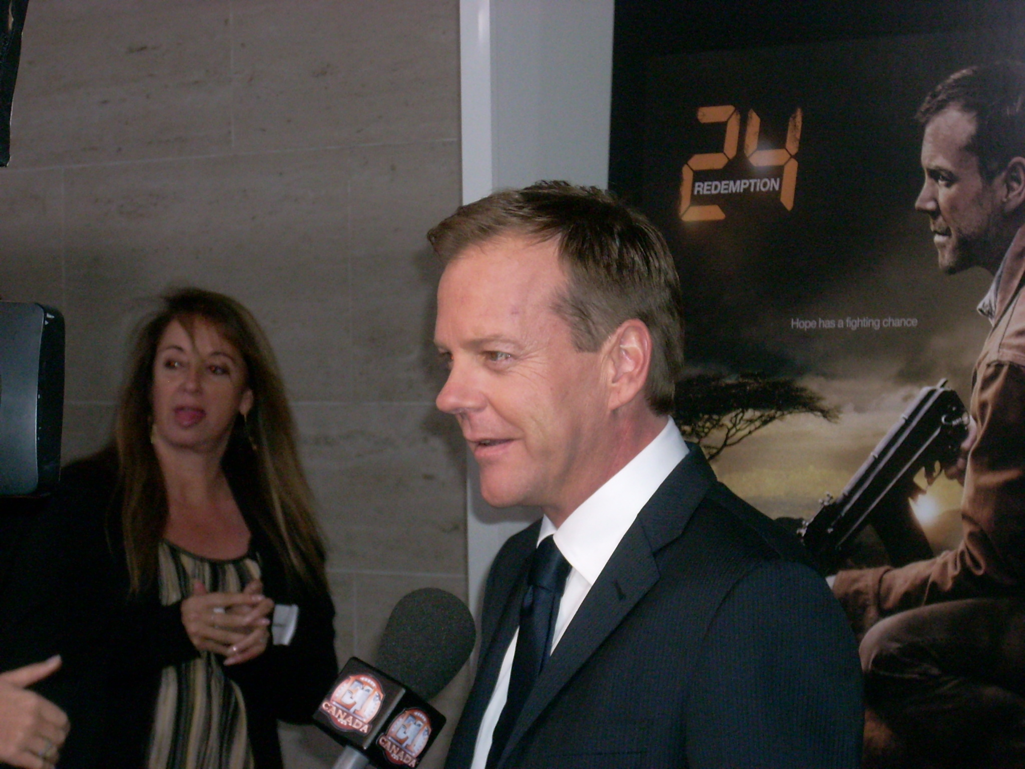 "24: Redemption" Photo Exhibit Opening, Paley Center for Media, Beverly Hills, Calif. - Nov. 10, 2008